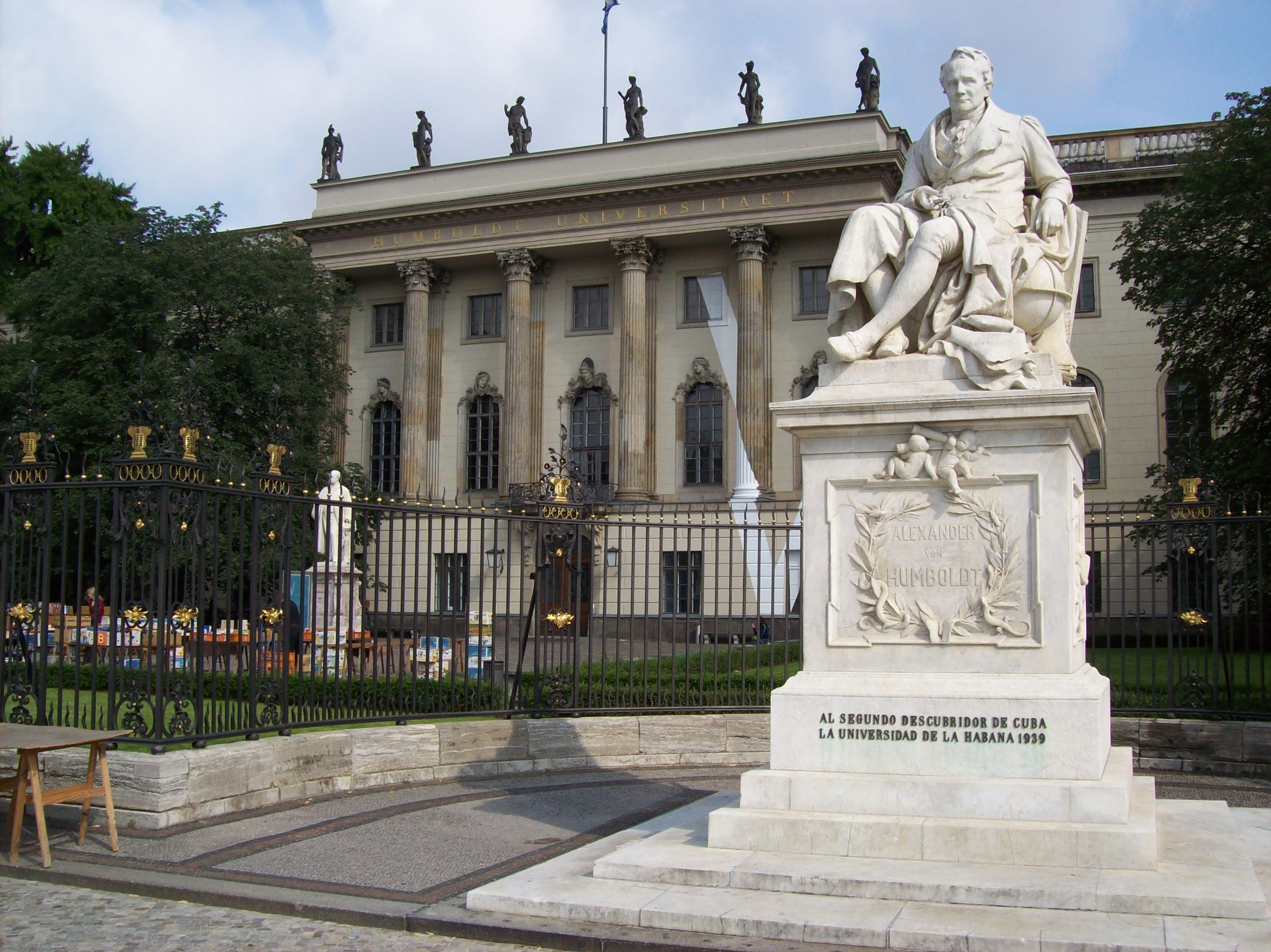 Humboldt University (Universitaet) in Berlin